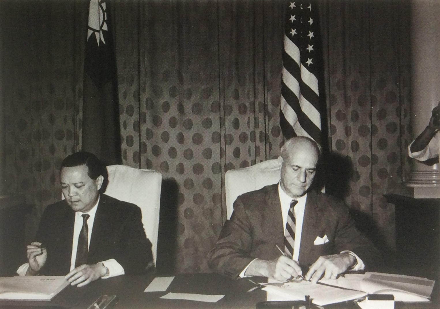 Minister of Foreign Affairs Shen Chang-huan (left) and U.S. Ambassador Jerauld Wright (right) sign an agreement to further educational and cultural exchanges.